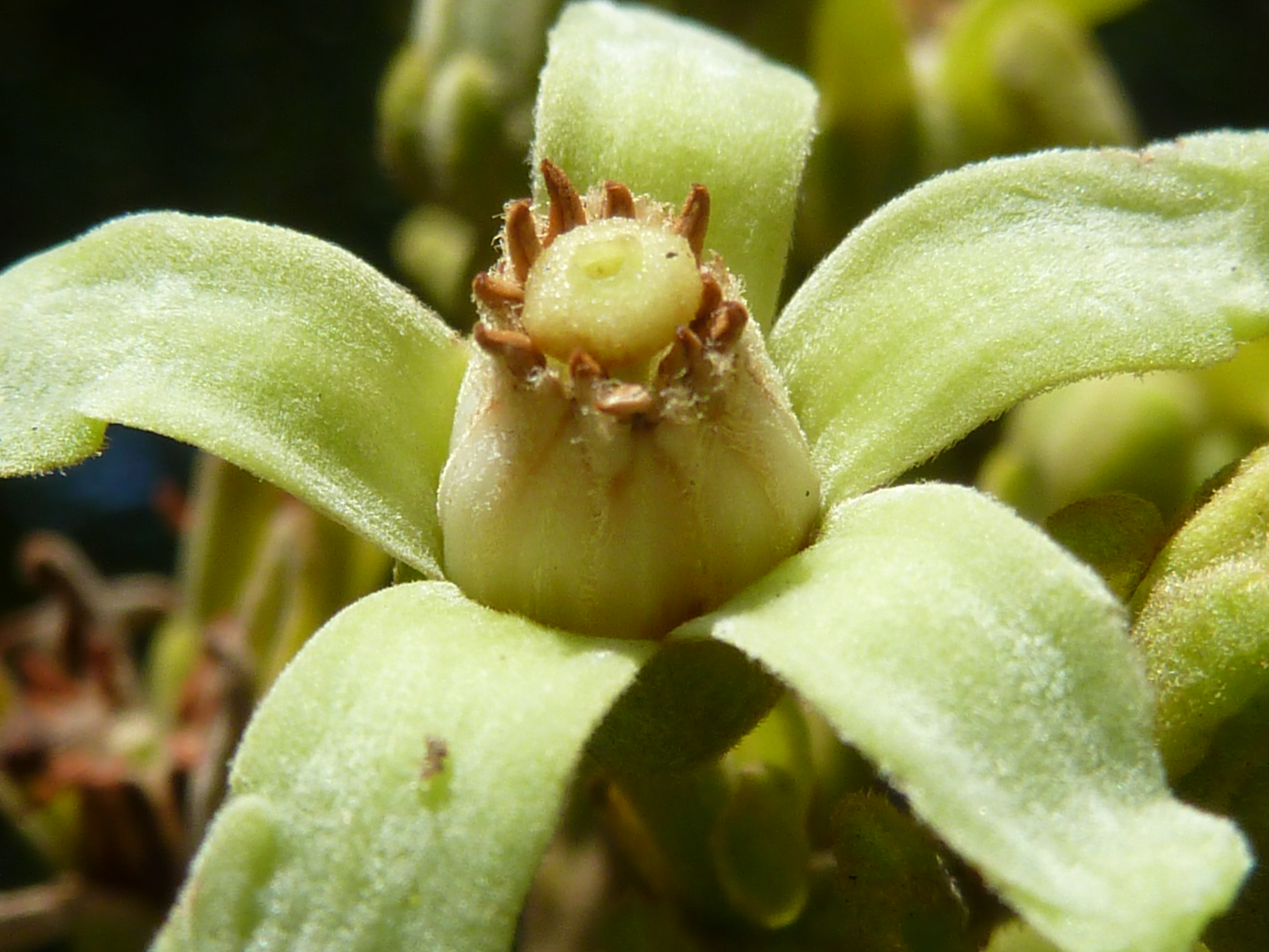 Flowers of a Natal mahogany, Pretoria